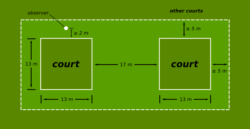 A schematic representation of a DDC field. SVG source at Image:DDC field.svg. Created by User:Gustavb using Inkscape, optimized with OptiPNG.